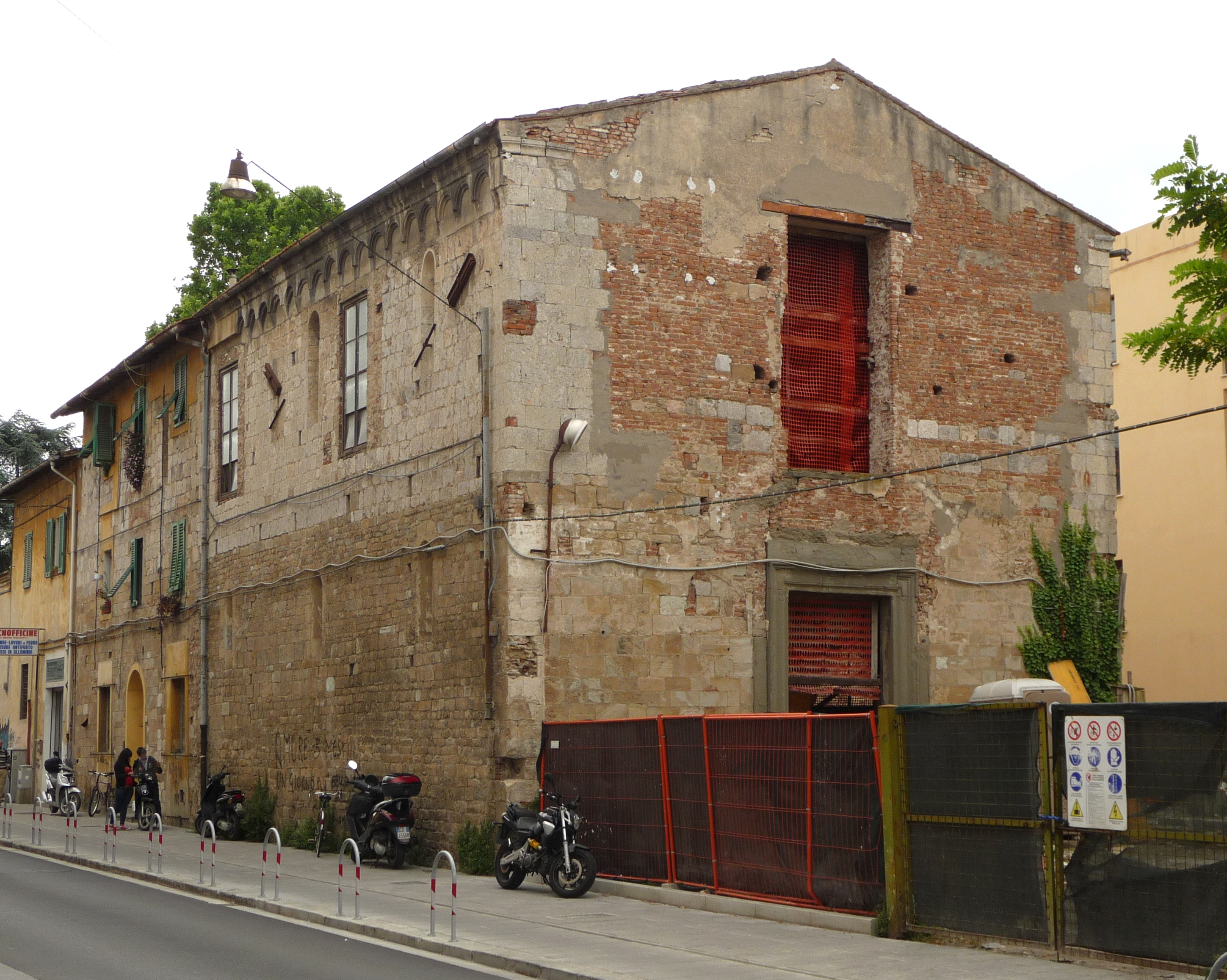 Ex-Church "San Marco in Calcesana", Pisa, Italy (Via Garibaldi)